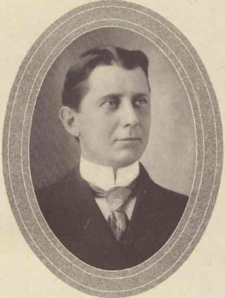 Photo of Ruffin Pleasant from 1910 edition of LSU Gumbo Yearbook.